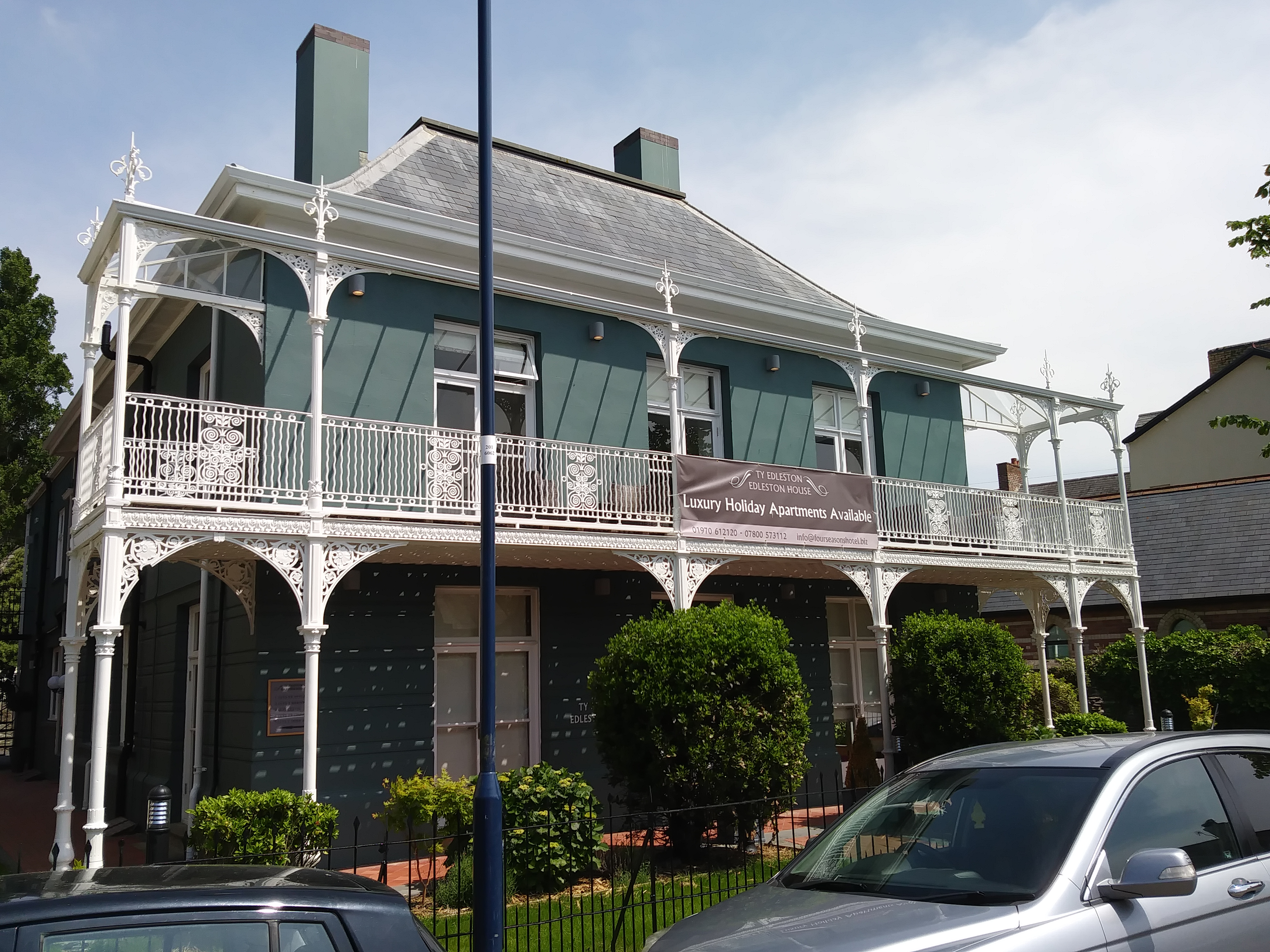 Ty Edleston, Queen's Rd, Aberystwyth